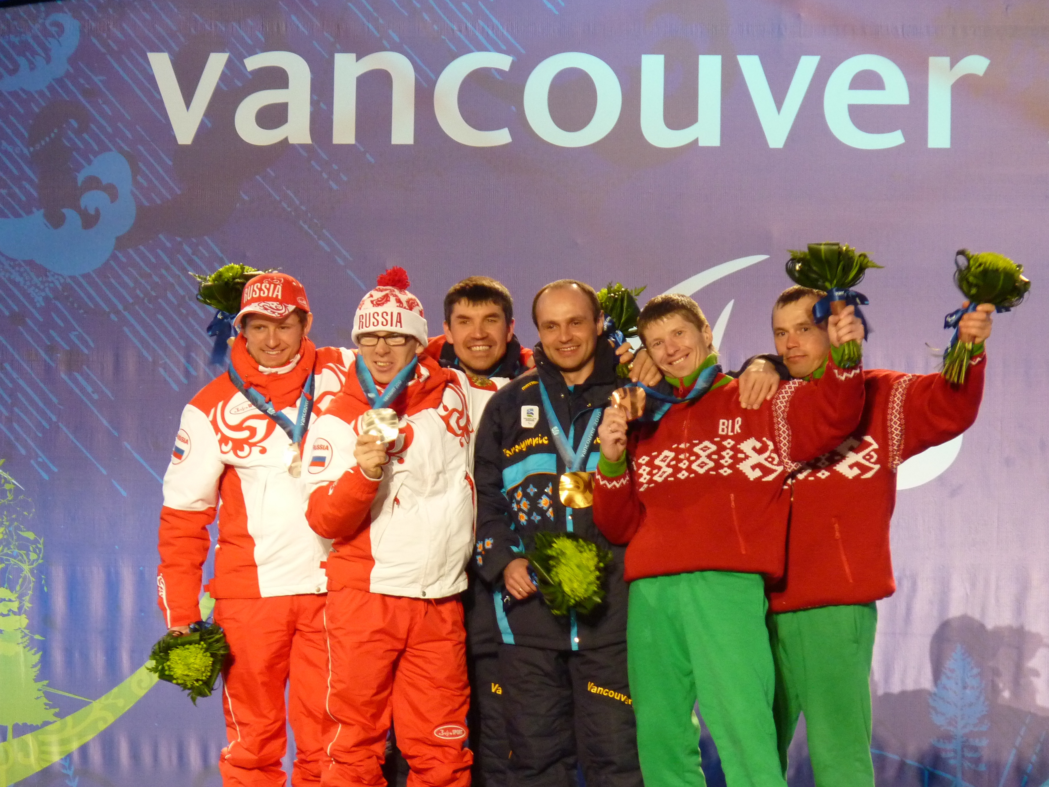 From left to right: Andrey Tokarev (guide) and Nikolay Polukhin of Russia (silver), Volodymyr Ivanov (guide) and Vitaliy Lukyanenko of the Ukraine (gold), and Vasili Shaptsiabol and his guide Mikalai Shablouski of Belarus (bronze), at the medal ceremony for biathlon, men's 3km Pursuit, visually impaired, during the 2010 Paralympics in Vancouver